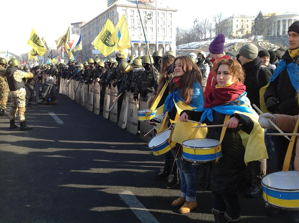 Picture made by activist of "Vidsich".